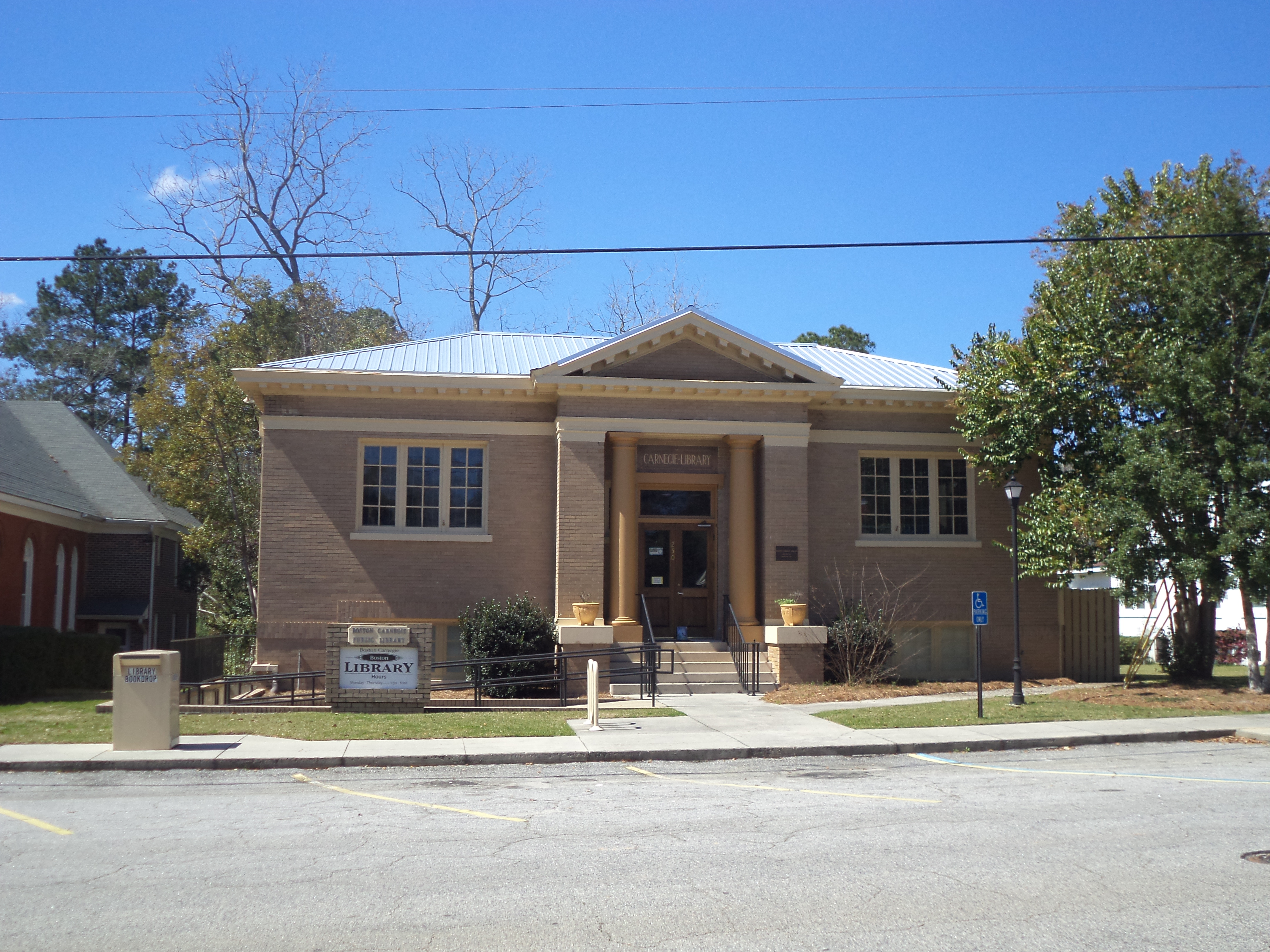 Boston Carnegie Public Library, 250 S Main St, Boston, Thomas County, Georgia